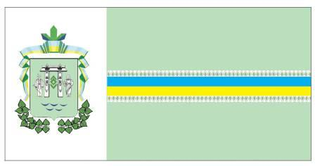 Flag of Vizhnickij district (Ukraine)